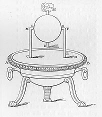 Illustration accompanying Hero's entry in Pneumatica, published in the first century AD. "No. 50. The Steam-Engine. PLACE a cauldron over a fire: a ball shall revolve on a pivot. A fire is lighted under a cauldron, A B, (fig. 50), containing water, and covered at the mouth by the lid C D; with this the bent tube E F G communicates, the extremity of the tube being fitted into a hollow ball, H K. Opposite to the extremity G place a pivot, L M, resting on the lid C D; and let the ball contain two bent pipes, communicating with it at the opposite extremities of a diameter, and bent in opposite directions, the bends being at right angles and across the lines F G, L M. As the cauldron gets hot it will be found that the steam, entering the ball through E F G, passes out through the bent tubes towards the lid, and causes the ball to revolve, as in the case of the dancing figures."